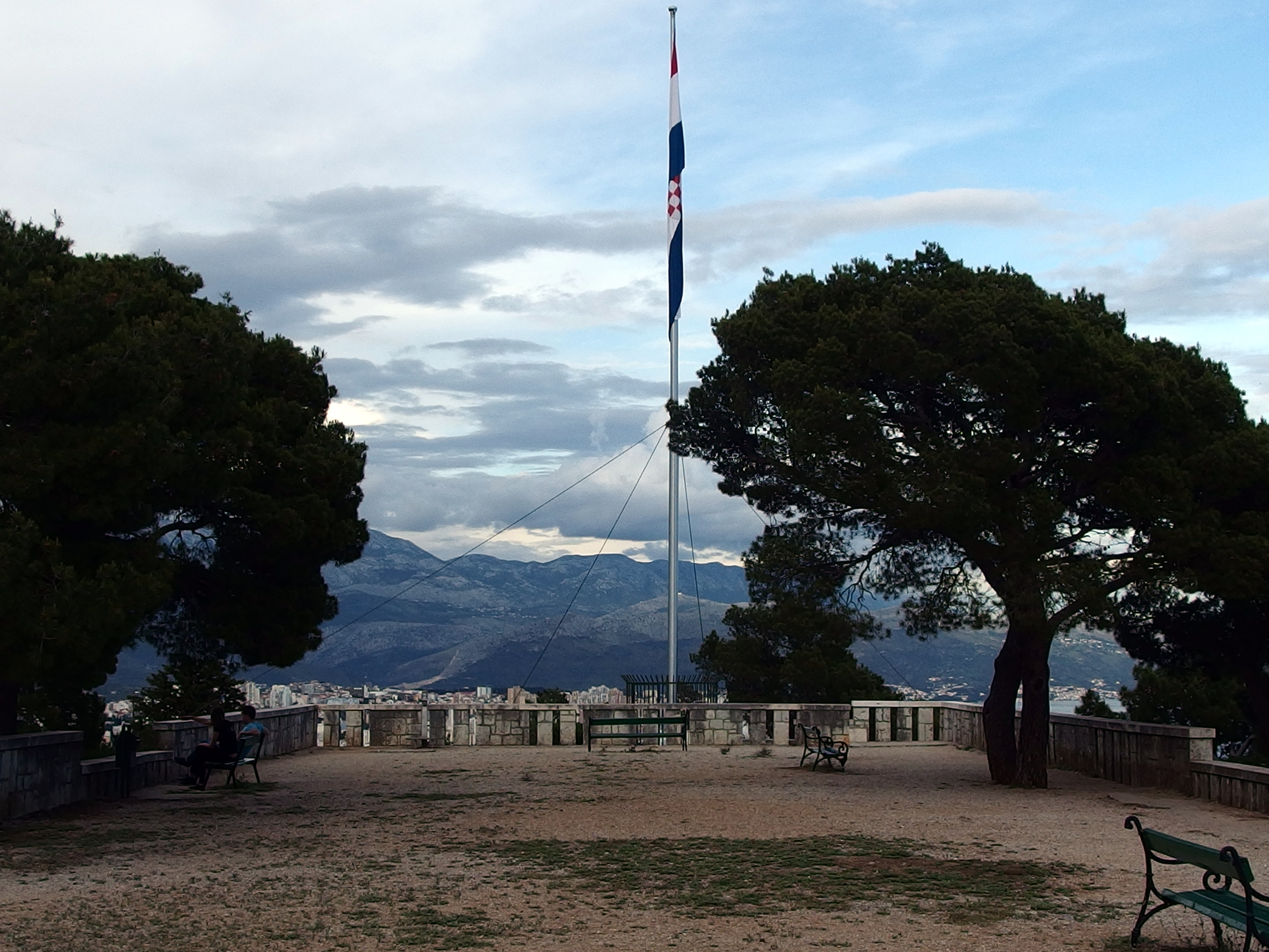 2013-06-05 in Split.